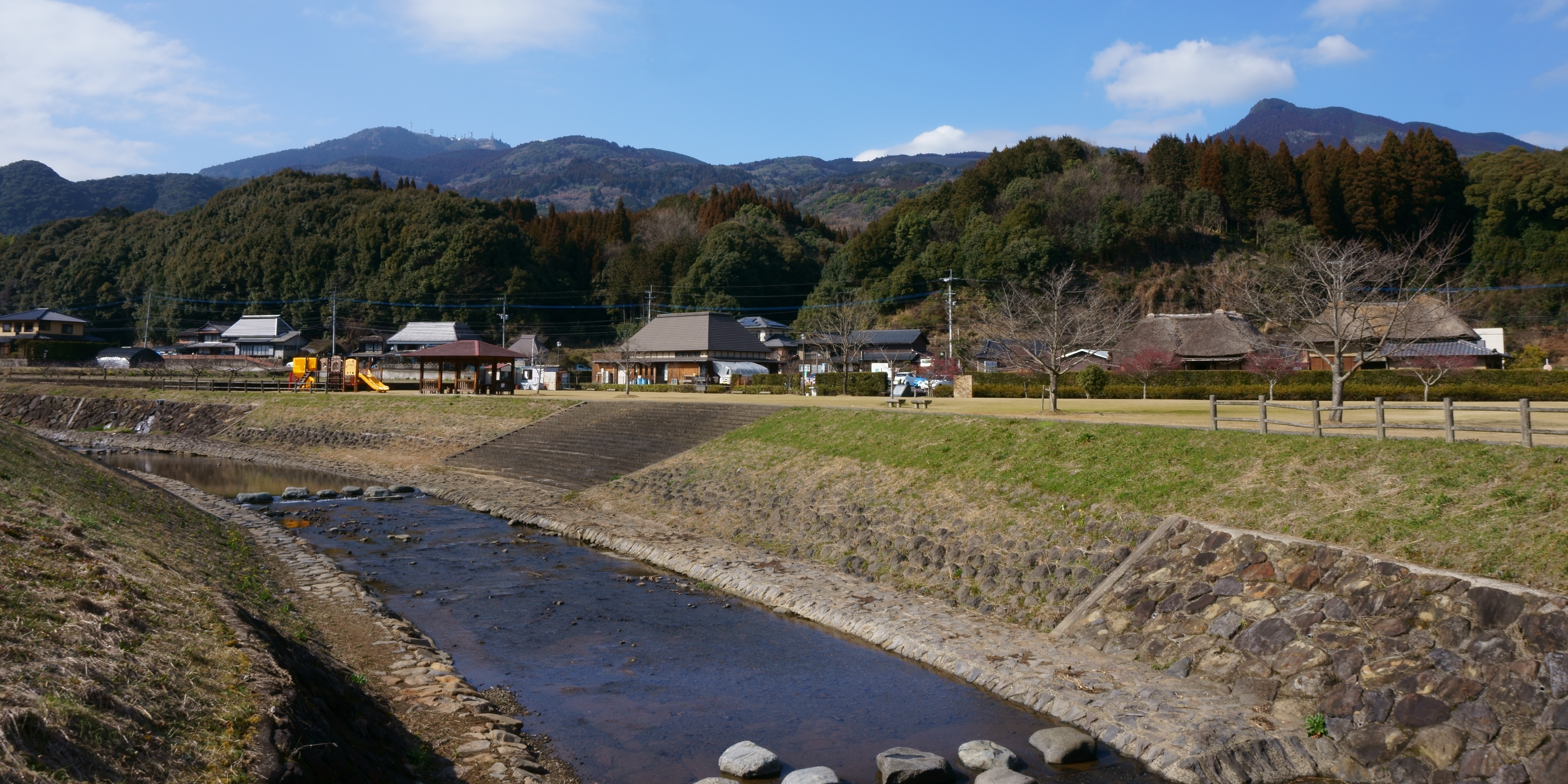 Homanzan Park in Itaya, Nishitakumachi, Taku city, Saga prefecture.